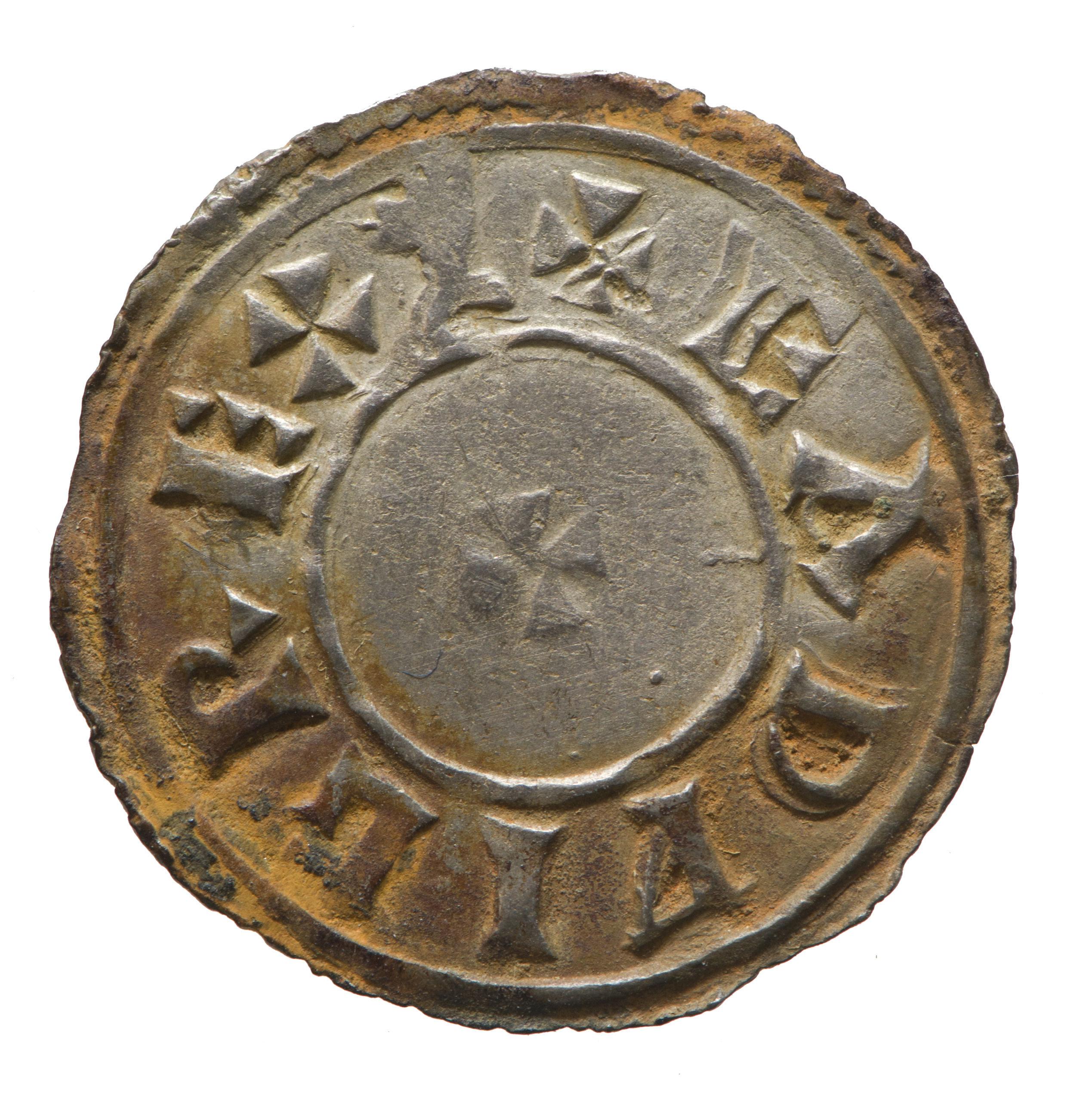 Obverse (front) of a silver penny of Eadwig Small cross